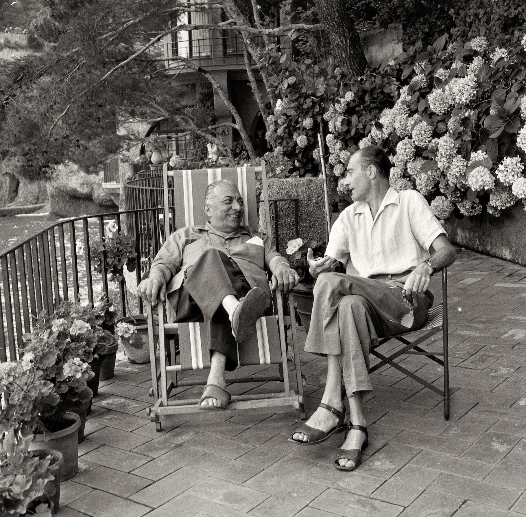 Italian publisher Arnoldo Mondadori and journalist Indro Montanelli.